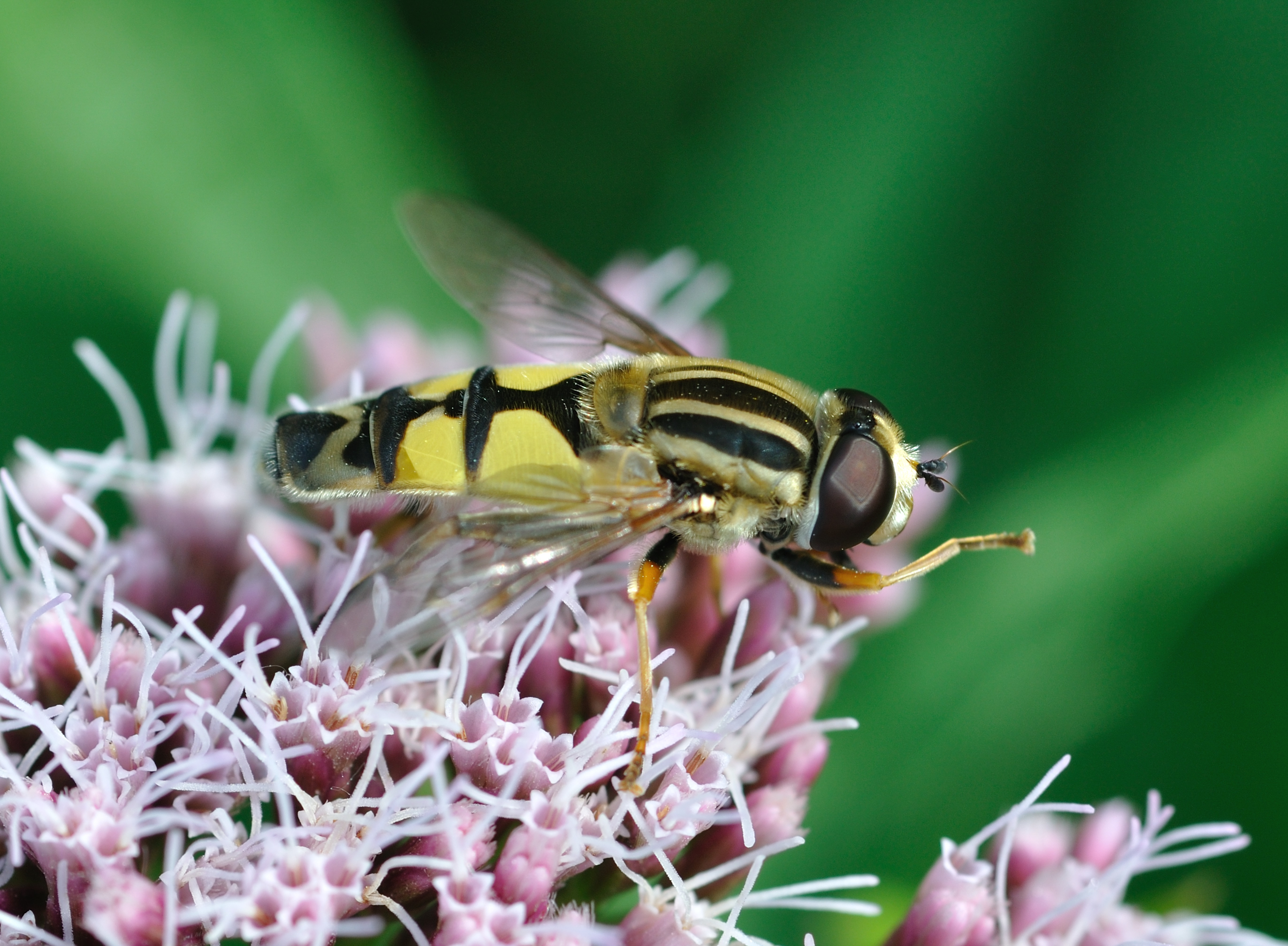 Male hoverfly Helophilus trivittatus near the old airstrip, Frankfurt, Germany.